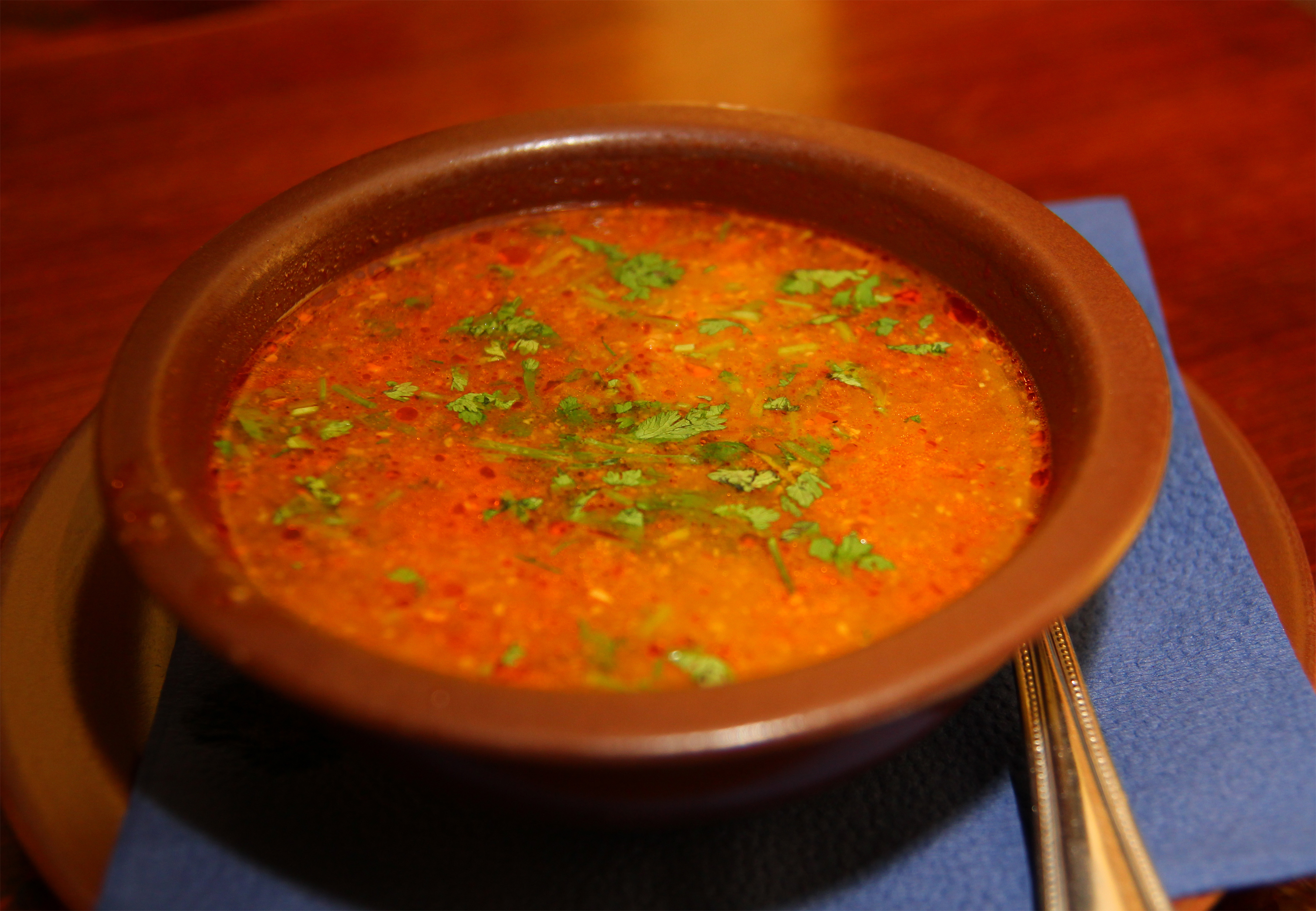 Kharcho is a Caucasian (mostly Georgian) spicy meat soup, here with mutton meat.